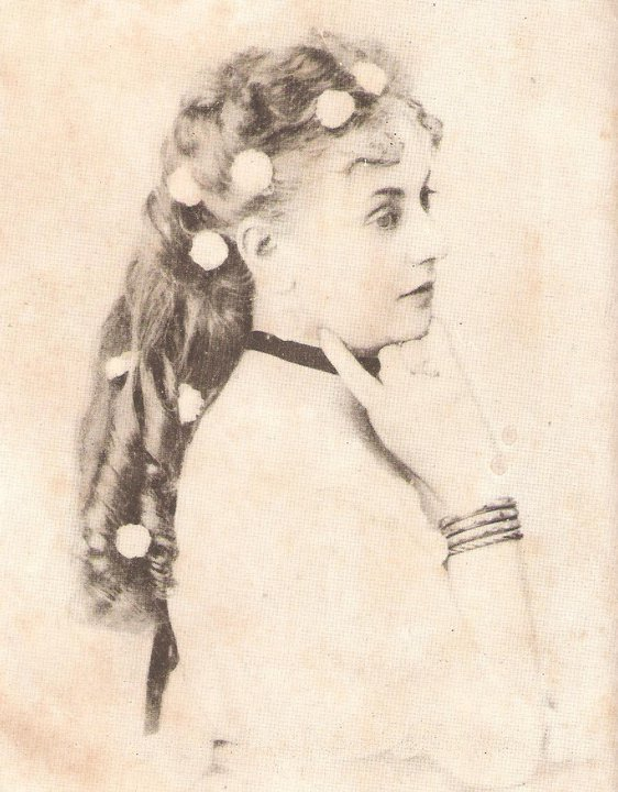 Eliza Lynch, long time companion of Paraguayan dictator Francisco Solano López, c.1864